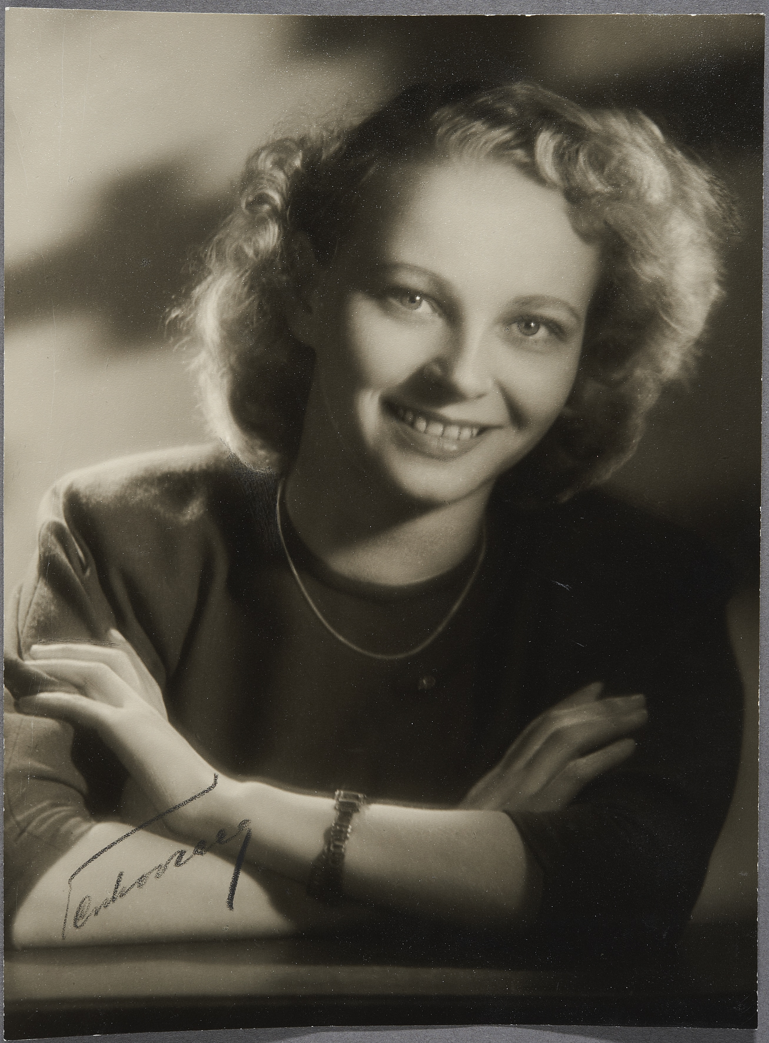 Photograph of the Finnish actor Ilmi Parkkari (1926–1979).